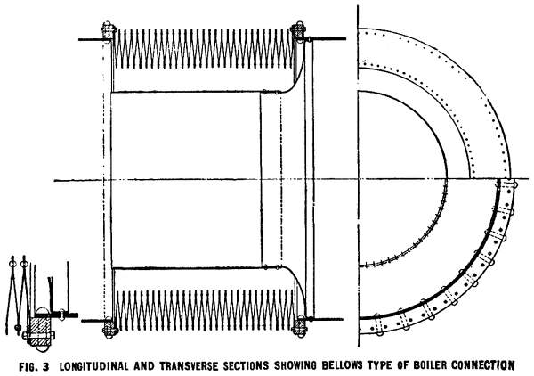 Flexible-boilered Mallet system steam locomotive